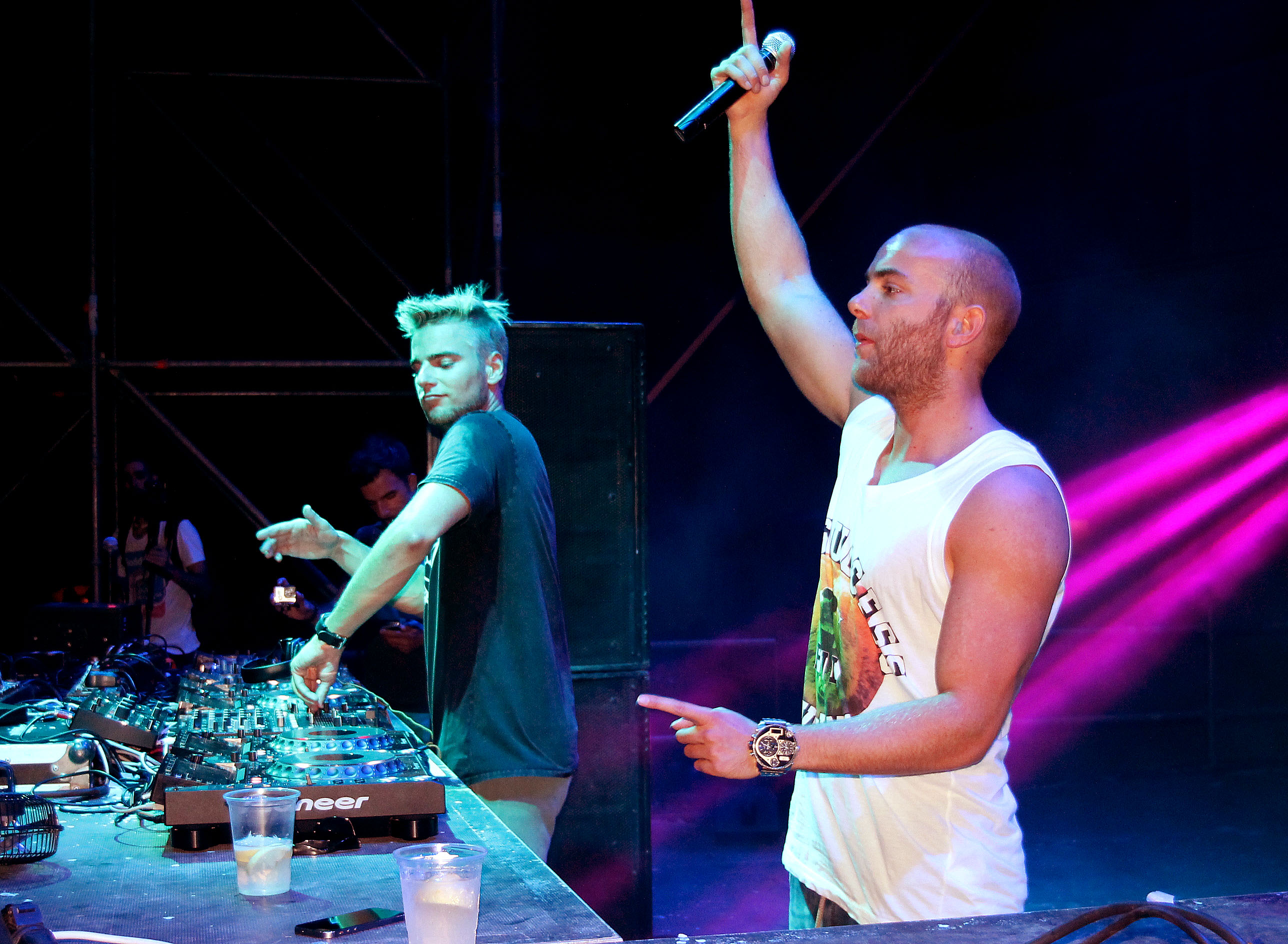 Showtek performing in the Alicante's Nightfall Festival.